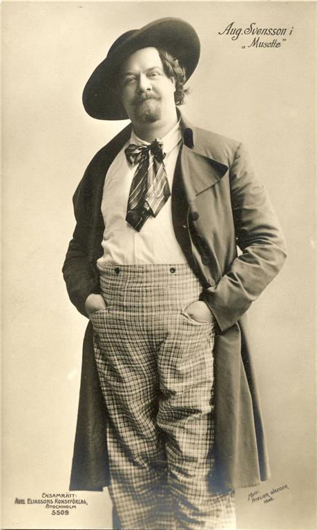 August Svensson (1871-1937) as Rodolphe in the operetta Musette